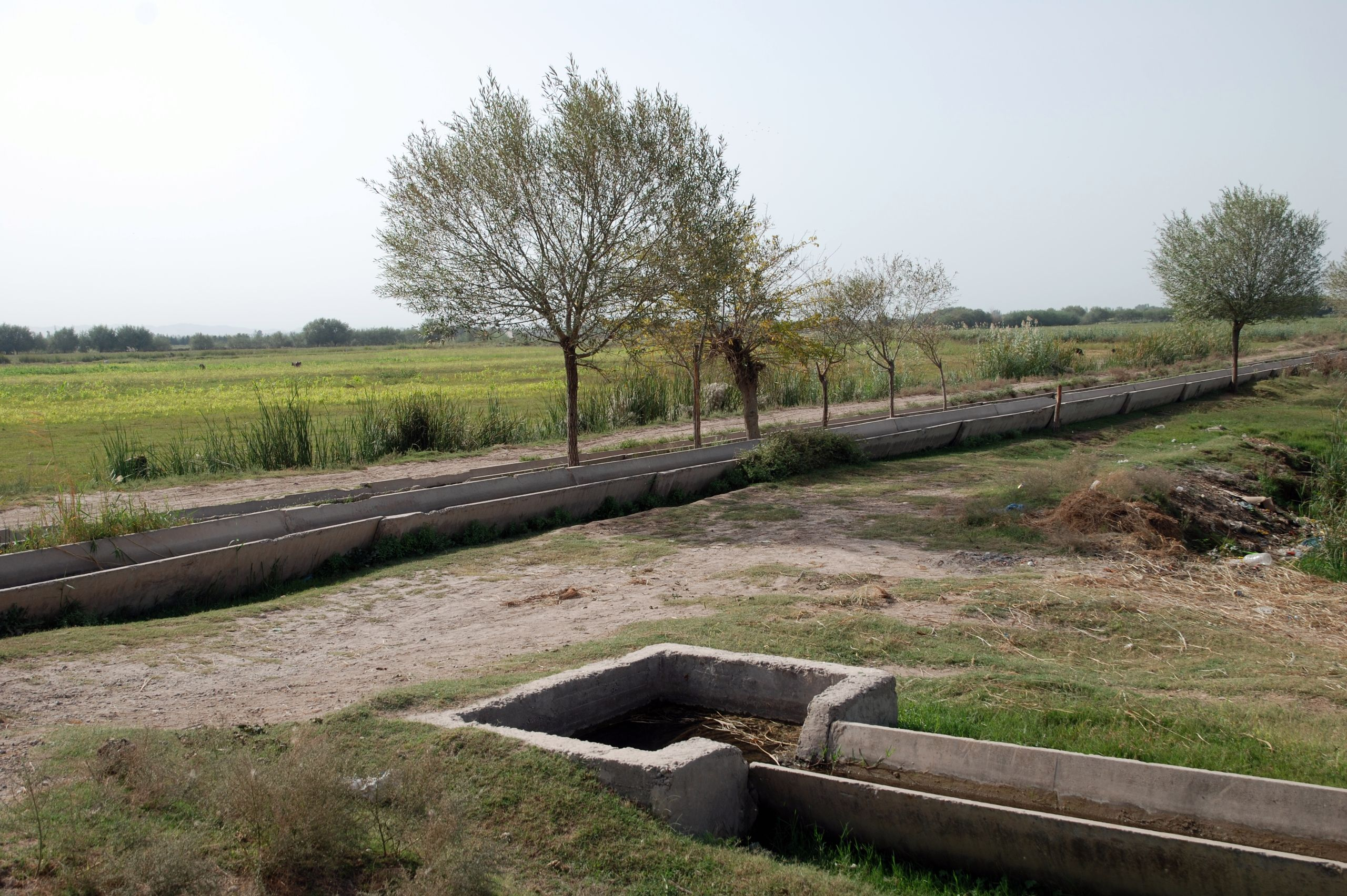 Qurghonteppa, 6 km east, road to Ajina-Tepa